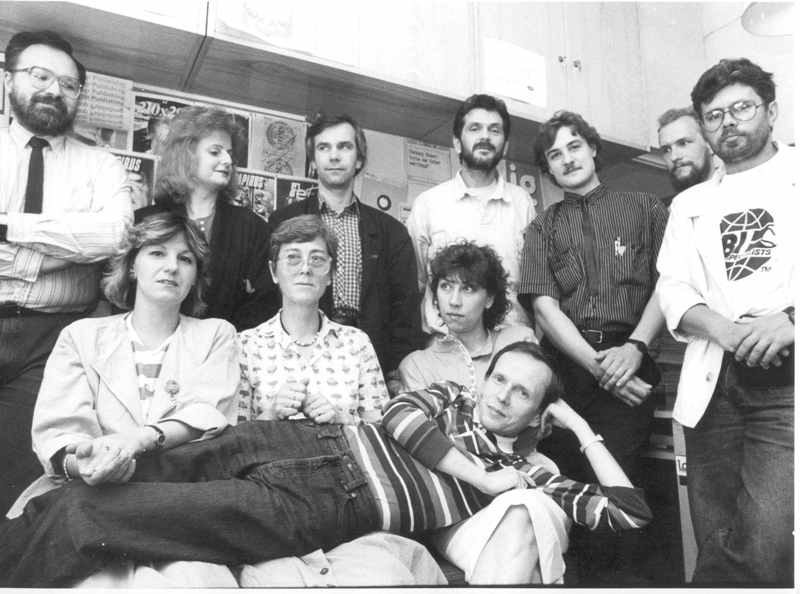 The last editorial staff of magazine “Komputer”.